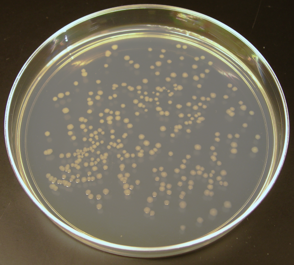 K12 E Coli colonies on a plate.